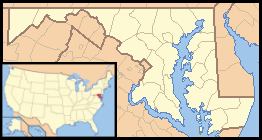 Locator Map of Maryland, United States